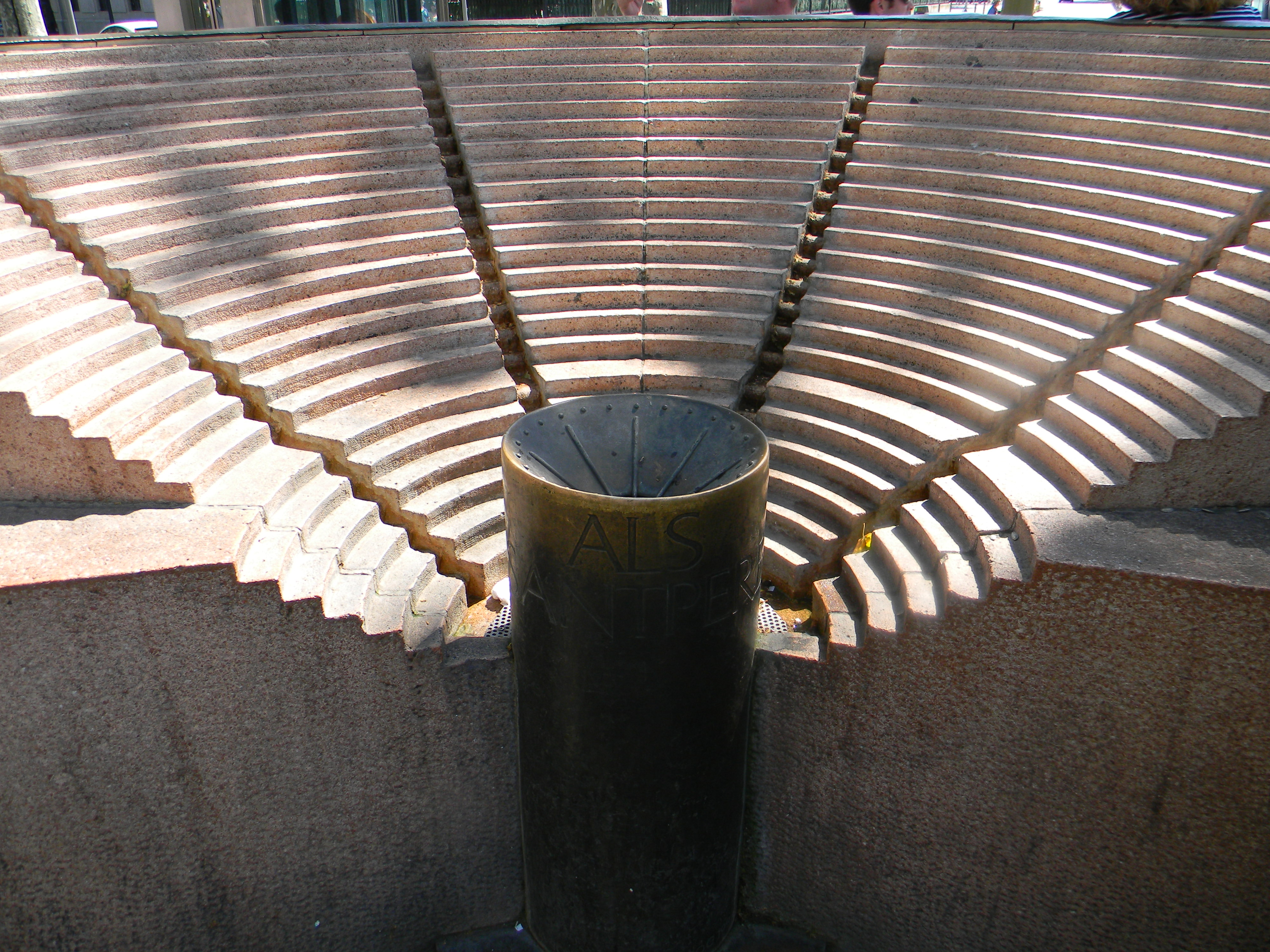 Als Santpere, fountain and monument in la Rambla (Barcelona).